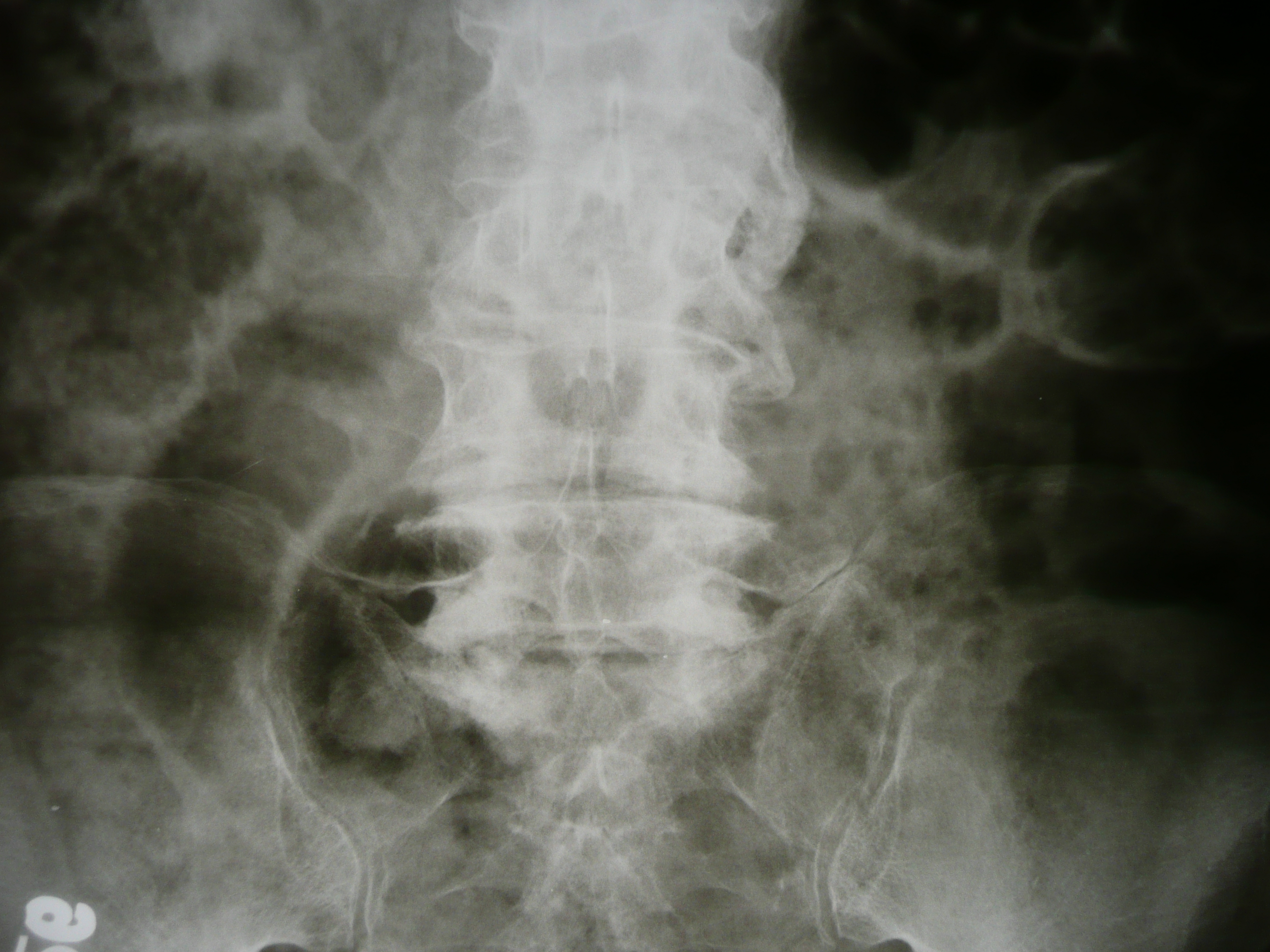 Medical X-rays Distended small intestine loops and osteoarthritis in a senile patient with diabetes mellitus.